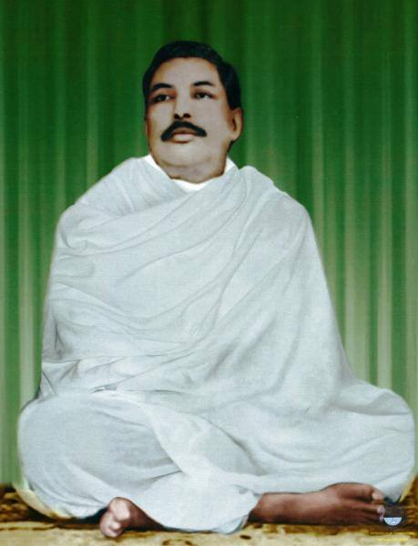 Sree Sree Thakur Anukulchandra